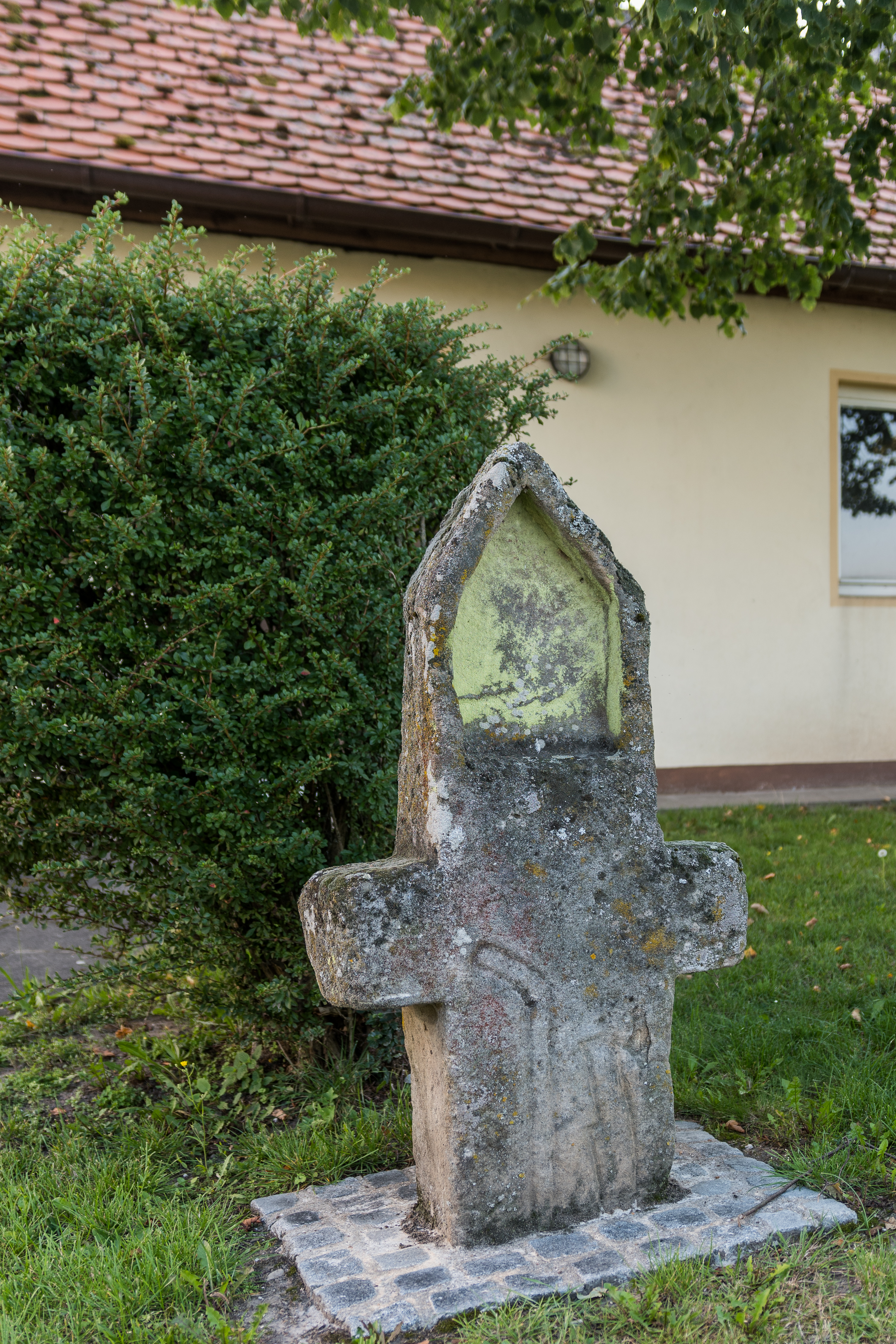 This is a photograph of an architectural monument.